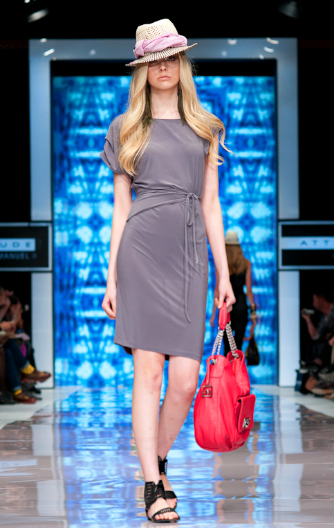 Model Bryanna Elkins walking the runway at Toronto Fashion Week.